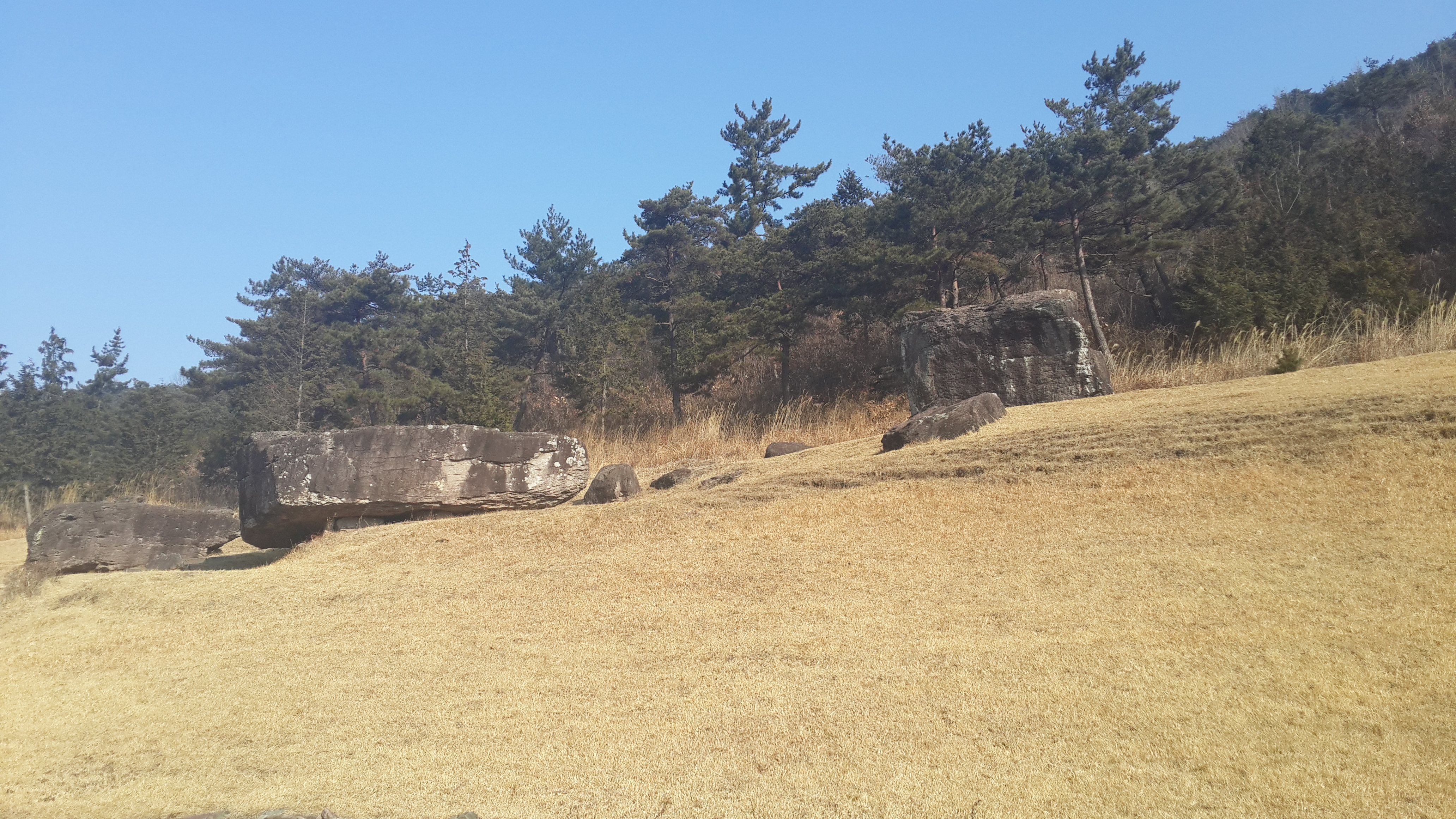 Dolmen sites in Hwasun, Jeollanam-do, South Korea which is one of the three places of UNESCO cultural heritages.